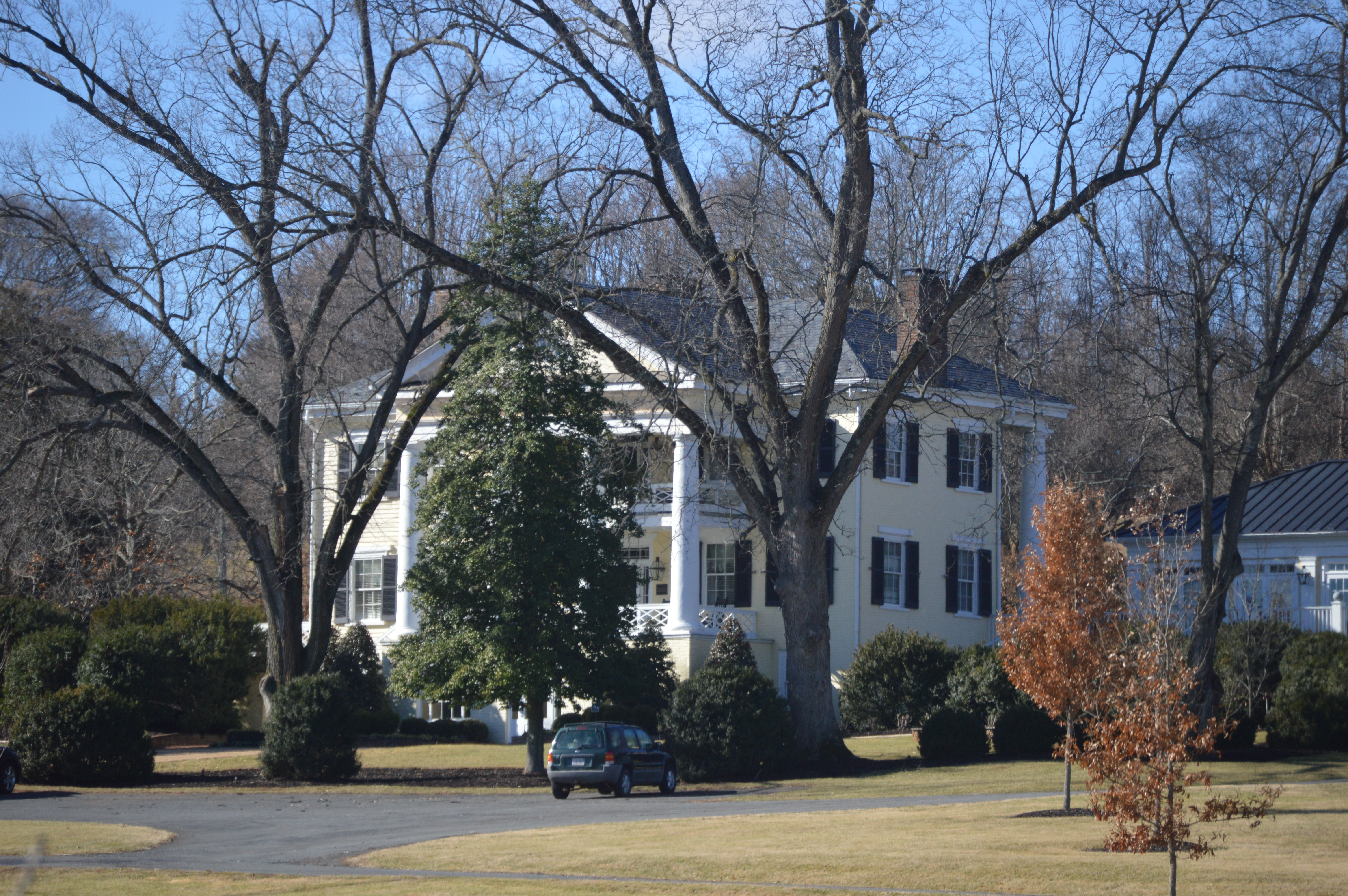 Front and northeastern side of Willow Grove, located off U.S. Route 15 just northwest of Orange in Orange County, Virginia, United States. Built in 1848, it is listed on the National Register of Historic Places.